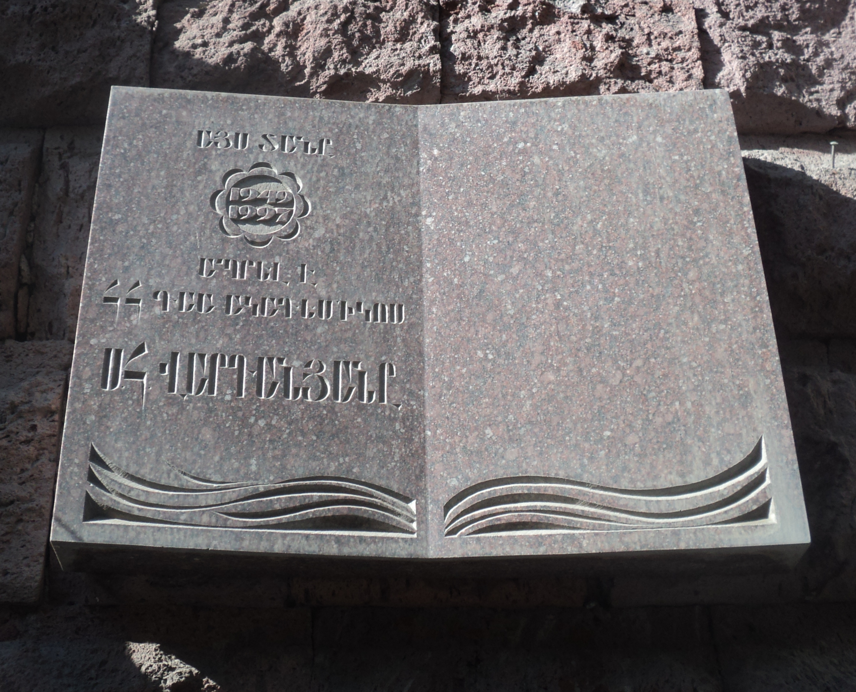 S H Vardanyan's plaque